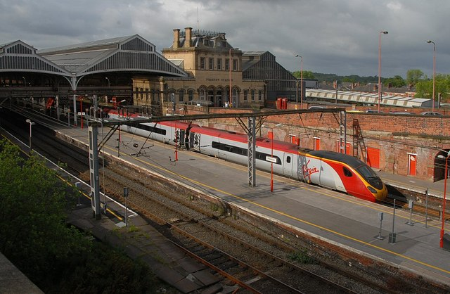 Preston Station Intercity train waiting at Preston station